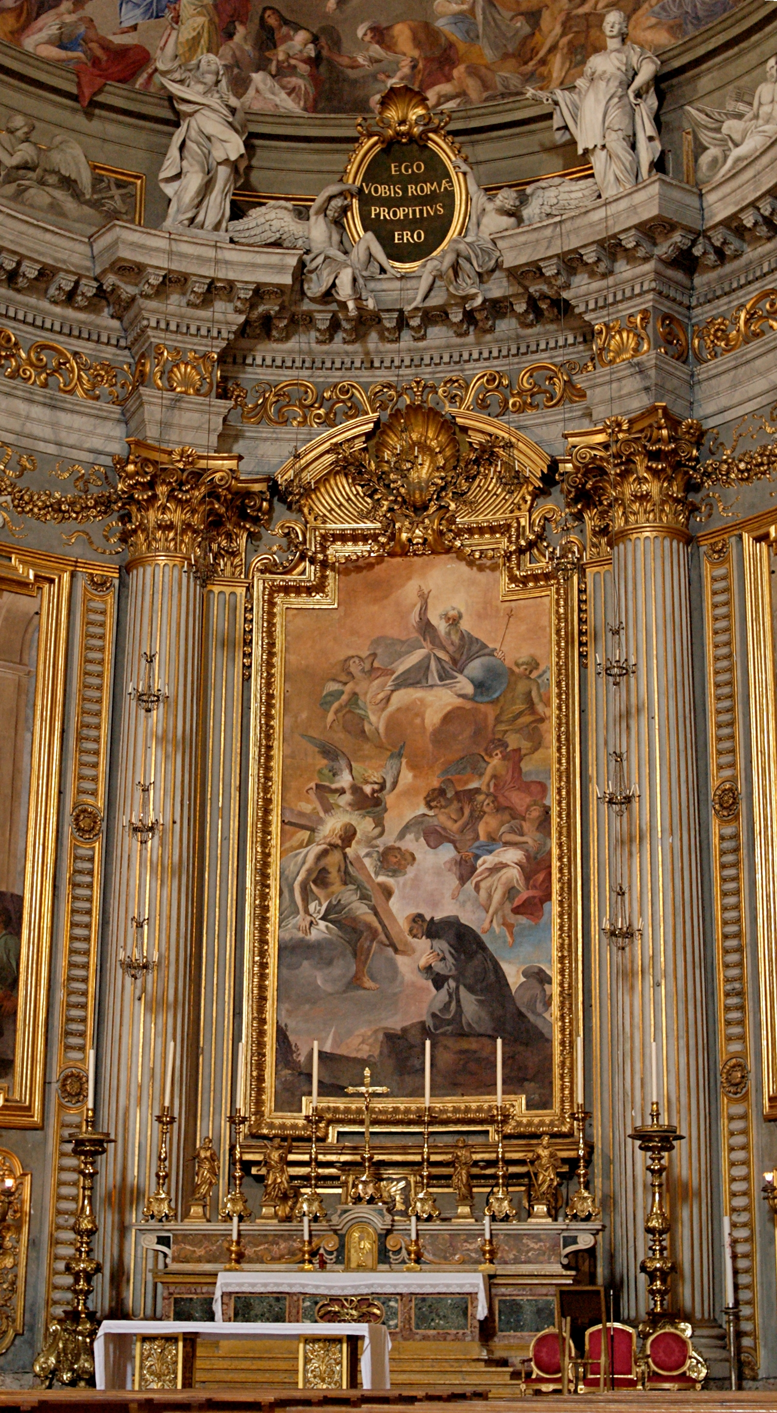 Main altar of Sant'Ignazio, Rome, Italy.